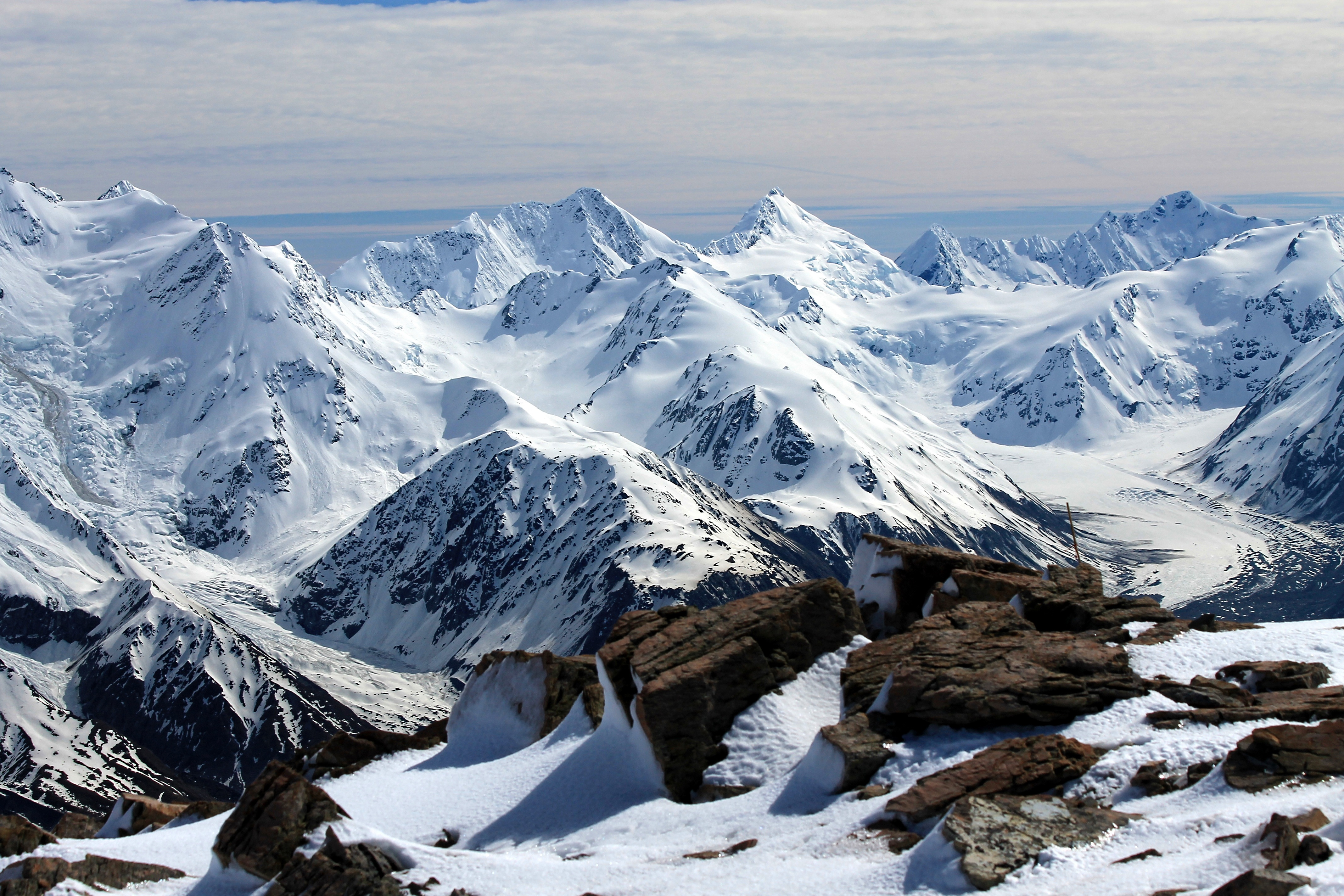 Winter Landscape Mountains New Zealand Snow